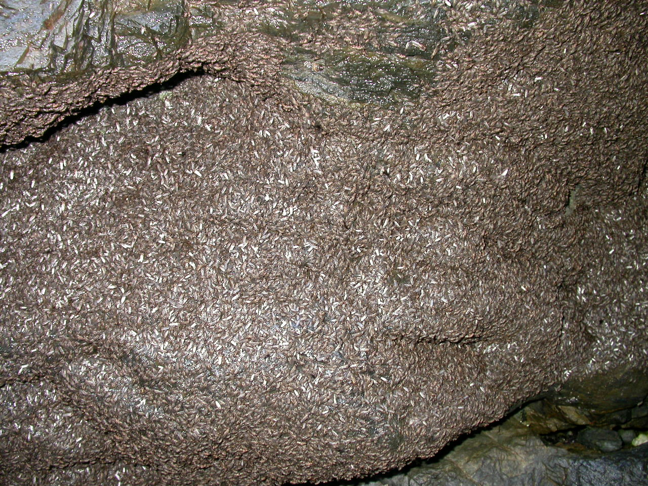 Kelp flies (Chaetocoelopa sydneyensis) mass on rocks just above high tide at Muttonbird Island (Coffs Harbour) on the north coast of NSW Australia. WGS84 -30.304440, 153.149072